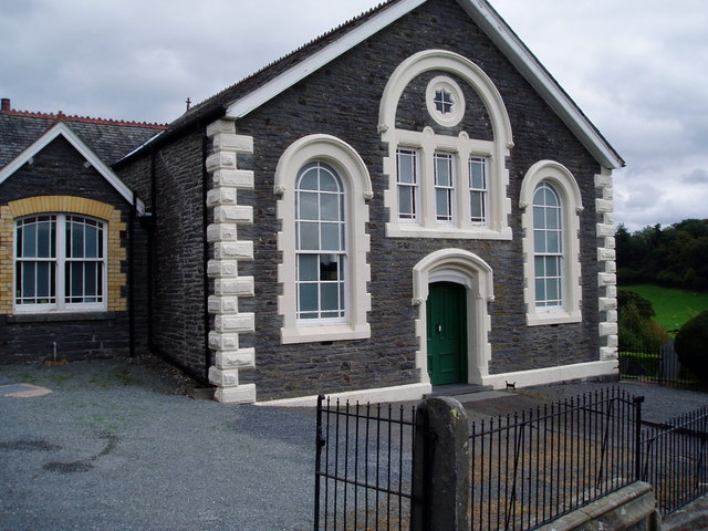 Dinmael chapel. Calvinistic Methodist chapel to the north of the A5 at Dinmael.